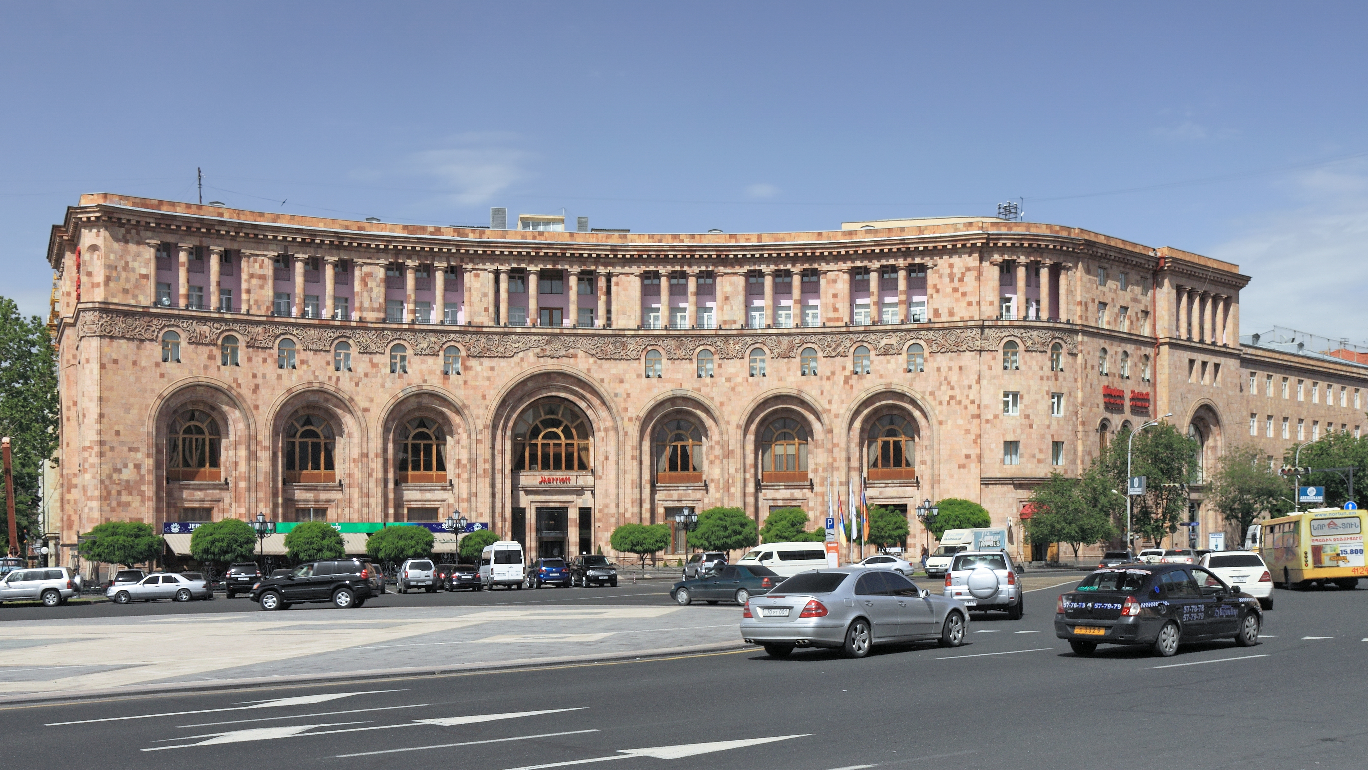 Armenia Marriott Hotel. Yerevan, Armenia.